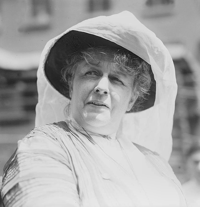 Bain News Service,, publisher. Mrs. H. S. Blatch [no date recorded on caption card] 1 negative : glass ; 5 x 7 in. or smaller. Notes: Title from unverified data provided by the Bain News Service on the negatives or caption cards. Forms part of: George Grantham Bain Collection (Library of Congress). Format: Glass negatives. Repository: Library of Congress, Prints and Photographs Division, Washington, D.C. 20540 USA, General information about the Bain Collection is available at Persistent URL: Call Number: LC-B2- 2772-4